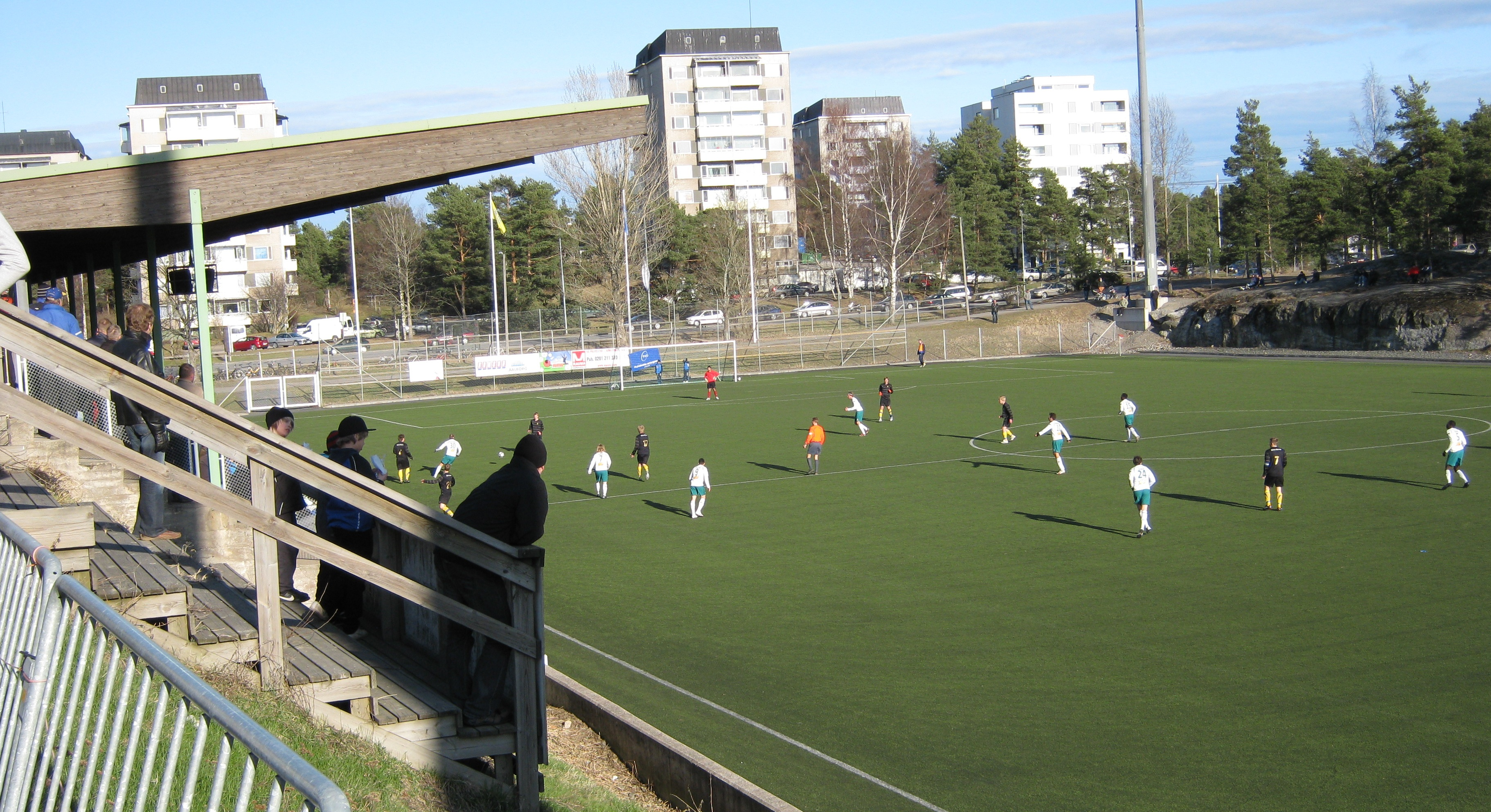 Äijänsuo stadium, Rauma, Finland. 2010 Finnish Cup Pallo-Iirot vs. IFK Mariehamn.